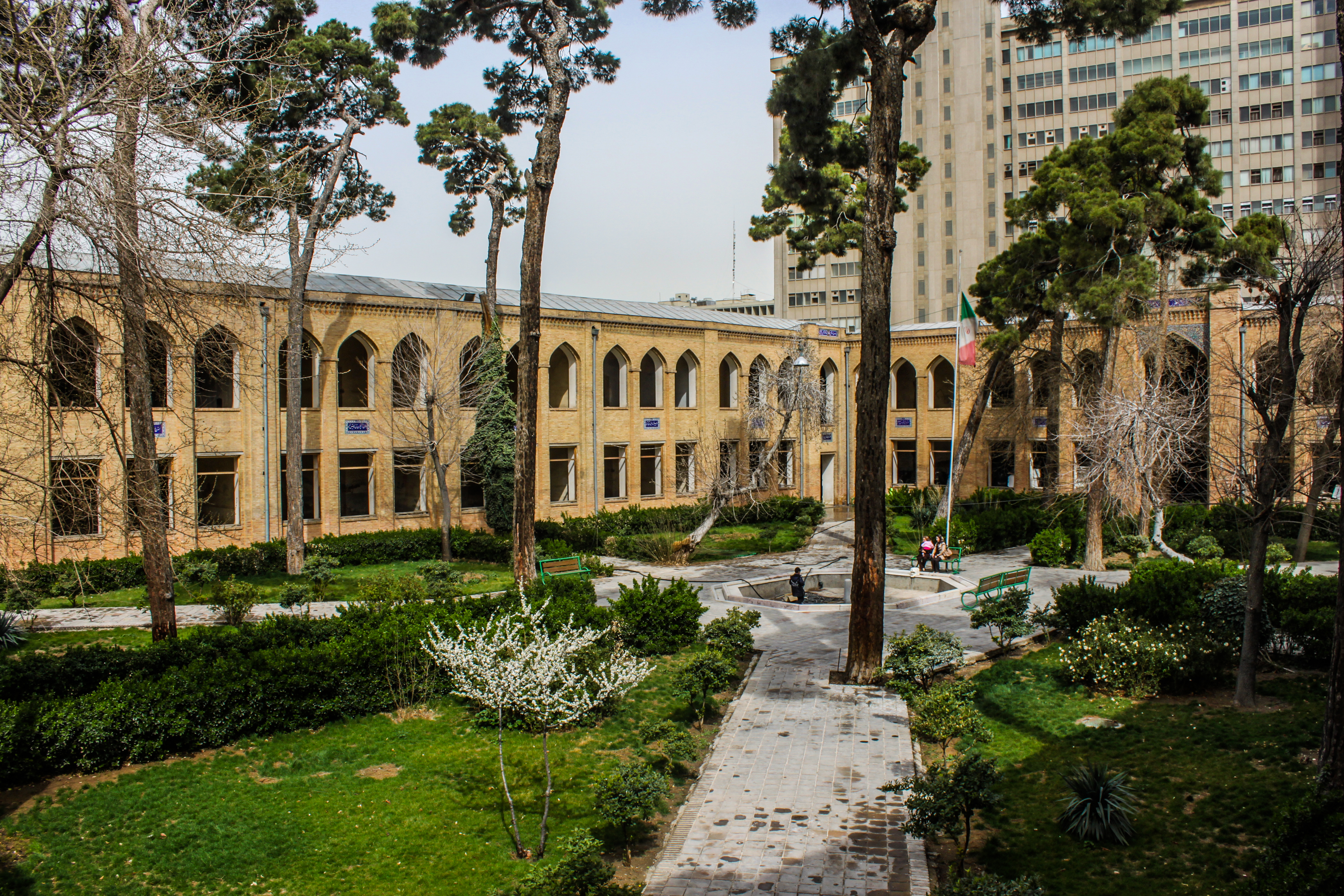 Dar Al-Fonoun was the name of a middle school that was founded on the initiative of Mirza Taghi Khan Amir Kabir during Naser-i-Din Shah Ghajar for the teaching of new sciences and techniques in Tehran